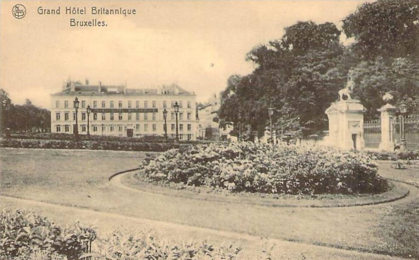 Grand Hotel Britannique, Brussels. 1904 postcard.